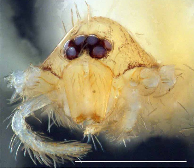 Tapinesthis inermis. female, carapace, Scale bar= 0. 5mm